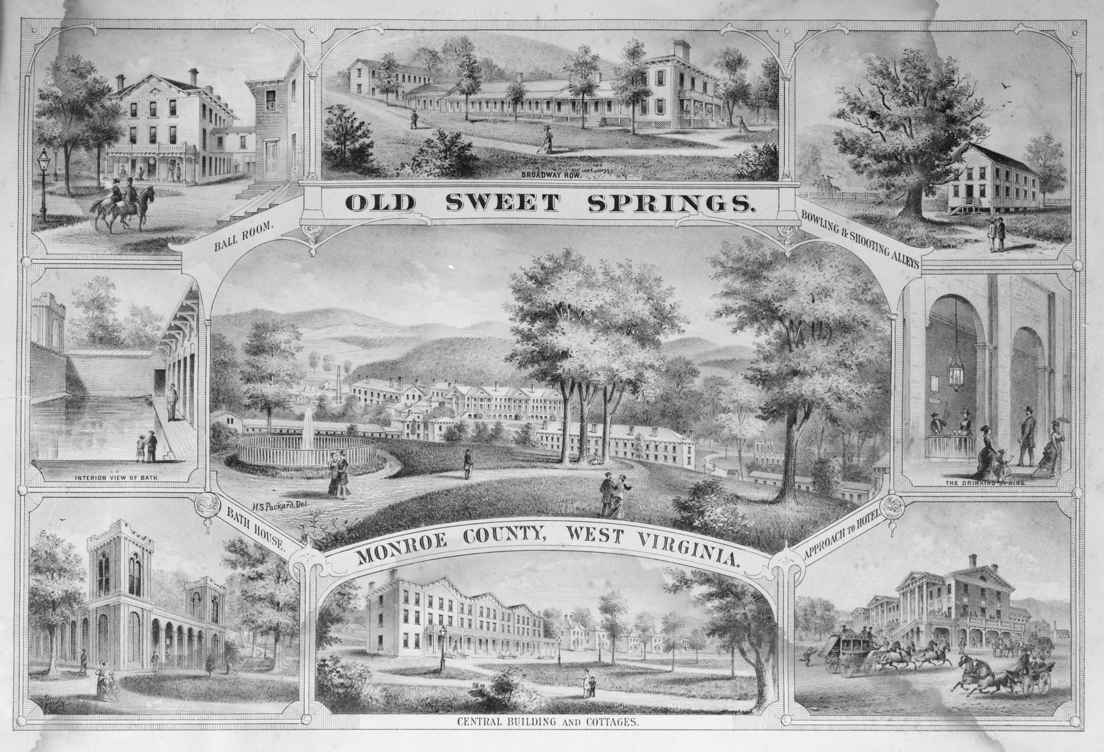 A photographic reproduction of an engraving of the Old Sweet Springs resort from the HABS survey conducted on the buildings in 1933.